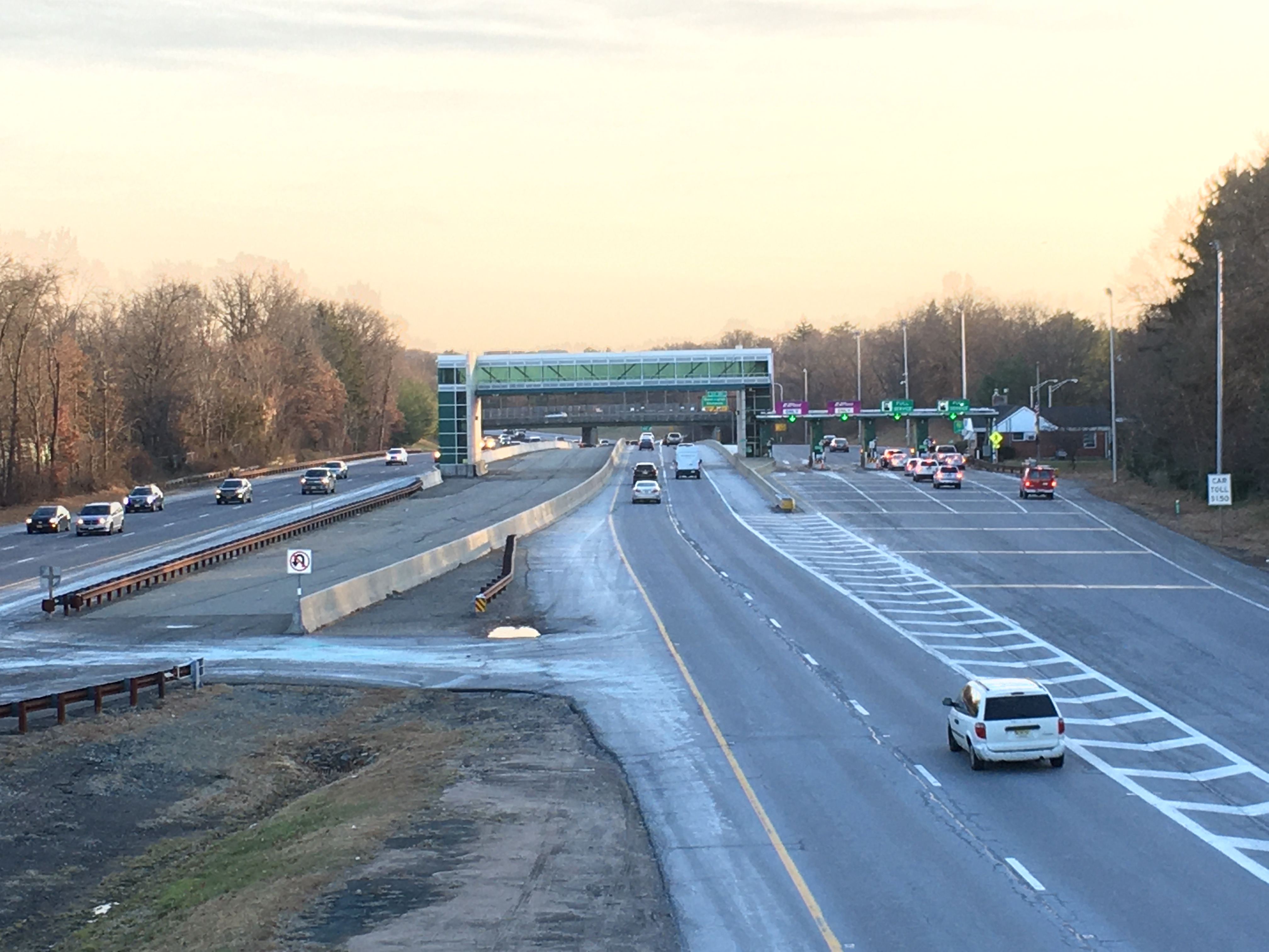 Modern appearance of toll plazas